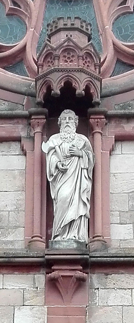 Statue of Matthew over the main Portal of the Parish church St. Matthew Rodgau-Nieder-Roden from 1897